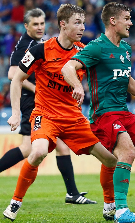 Vladimir Ilyin with FC Ural Yekaterinburg in the Russian Cup final game against FC Lokomotiv Moscow.